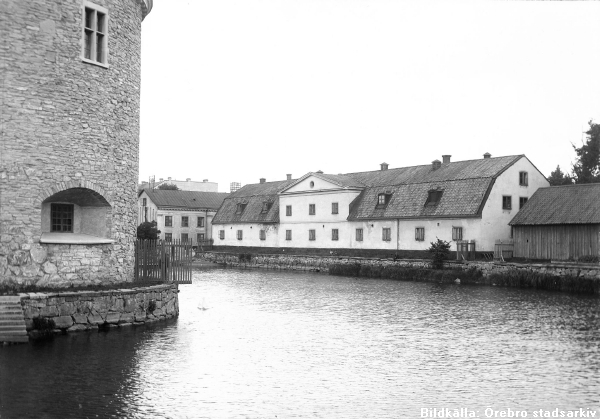 The hussar regiment's stable, Örebro, Sweden